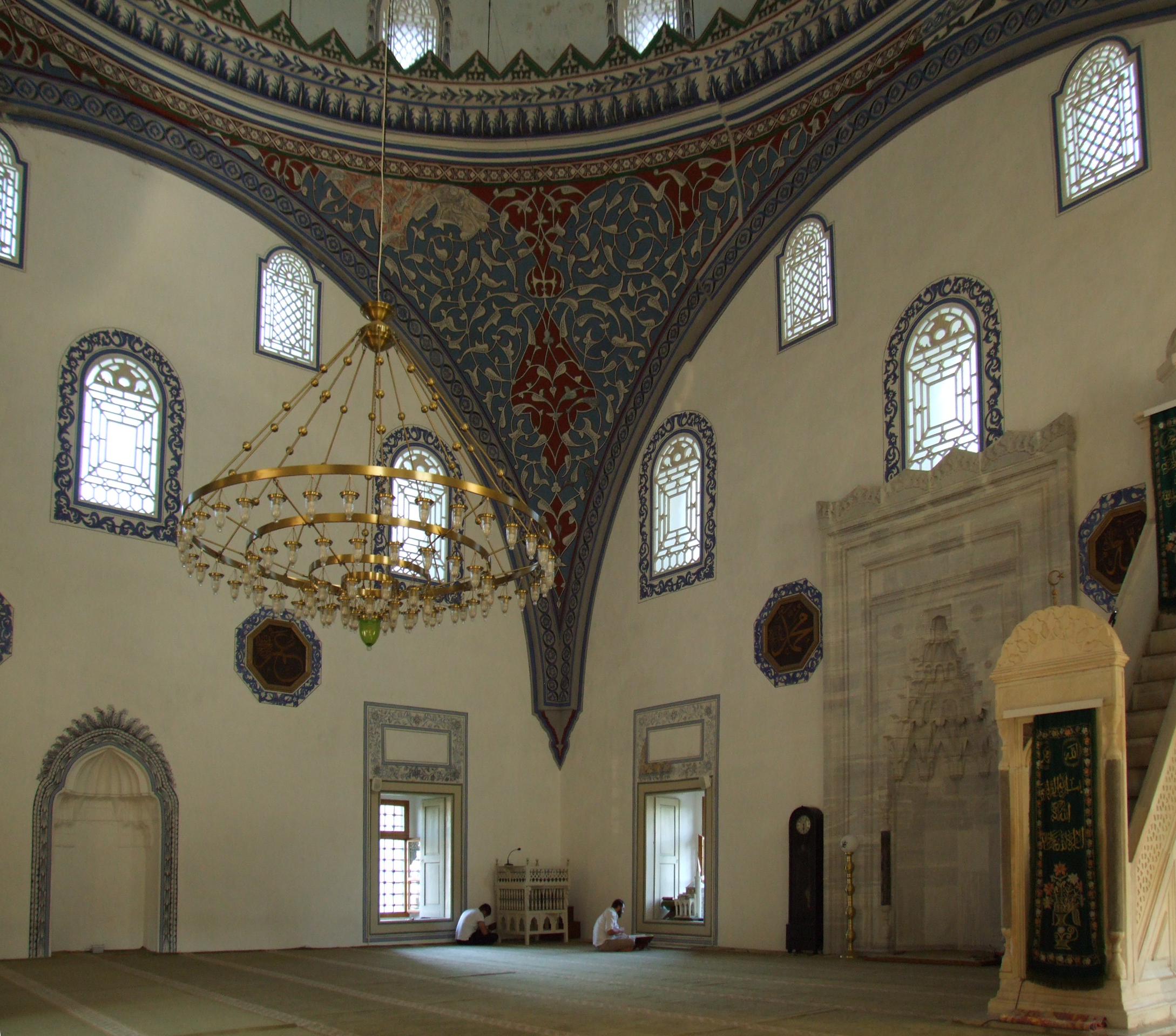 Mustafa Paşa Mosque, Skopje — interior.